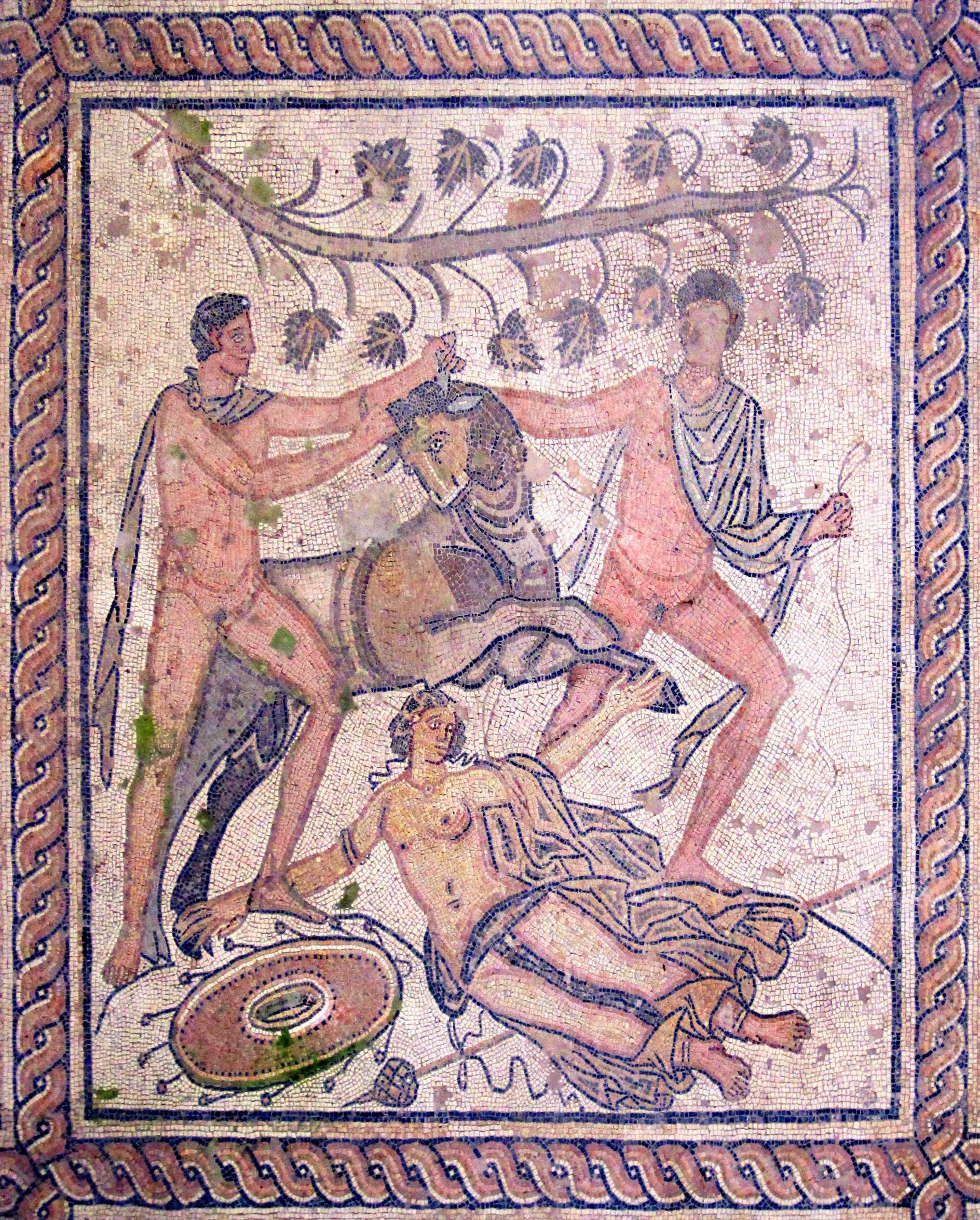 Roman mosaic in Pula, Dirce's punishment